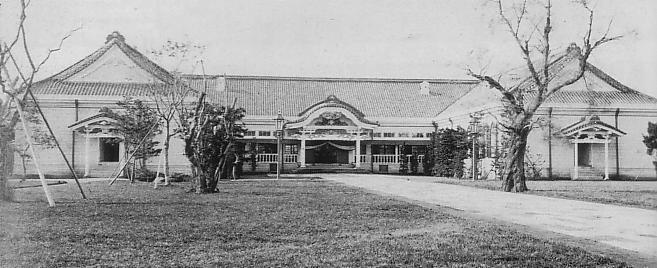 Enryo-Kan(State Guesthouse building in the Meiji Era)